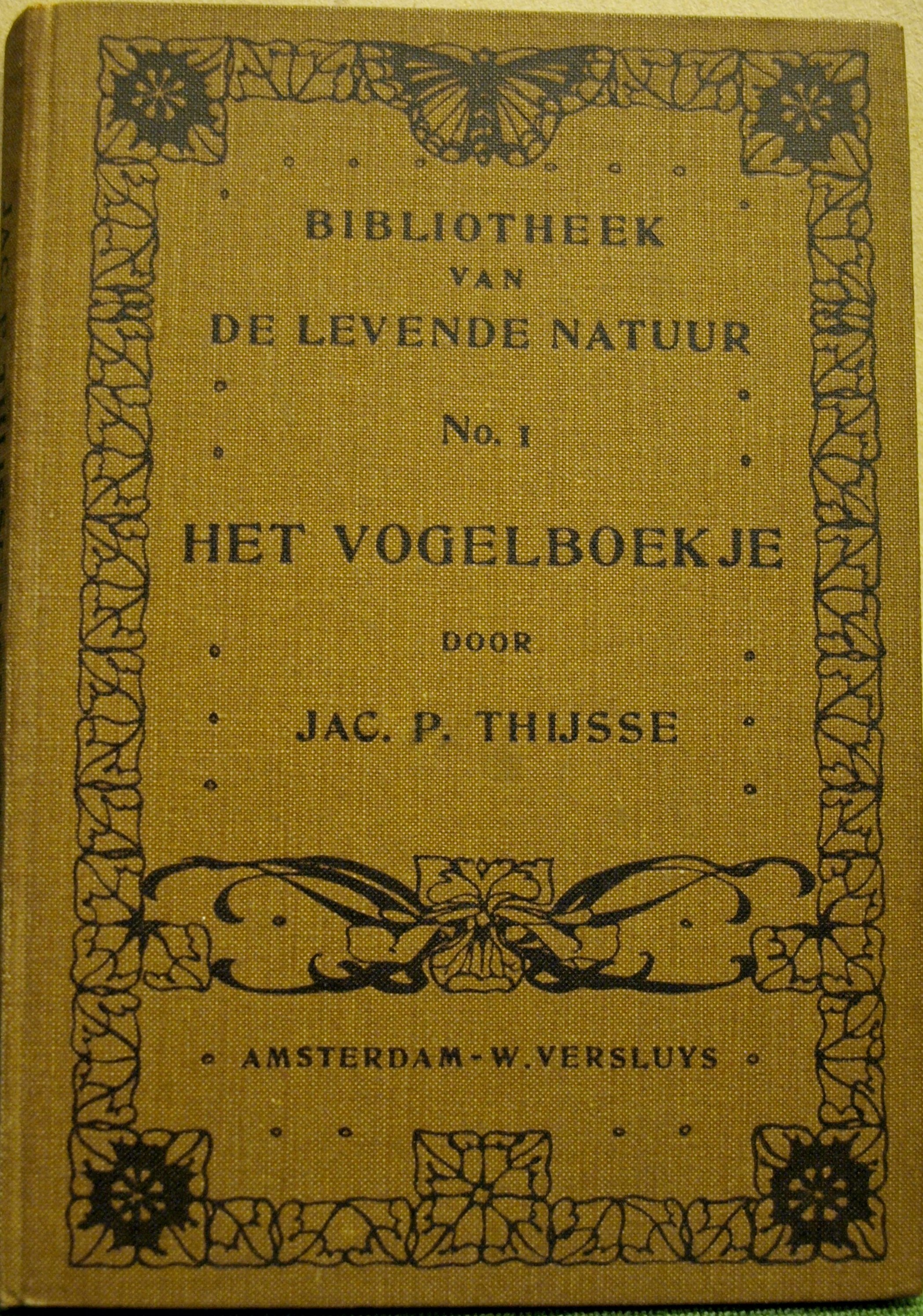 Cover of Het vogelboekje by Jac. P. Thijsse (1st printing, 1912)